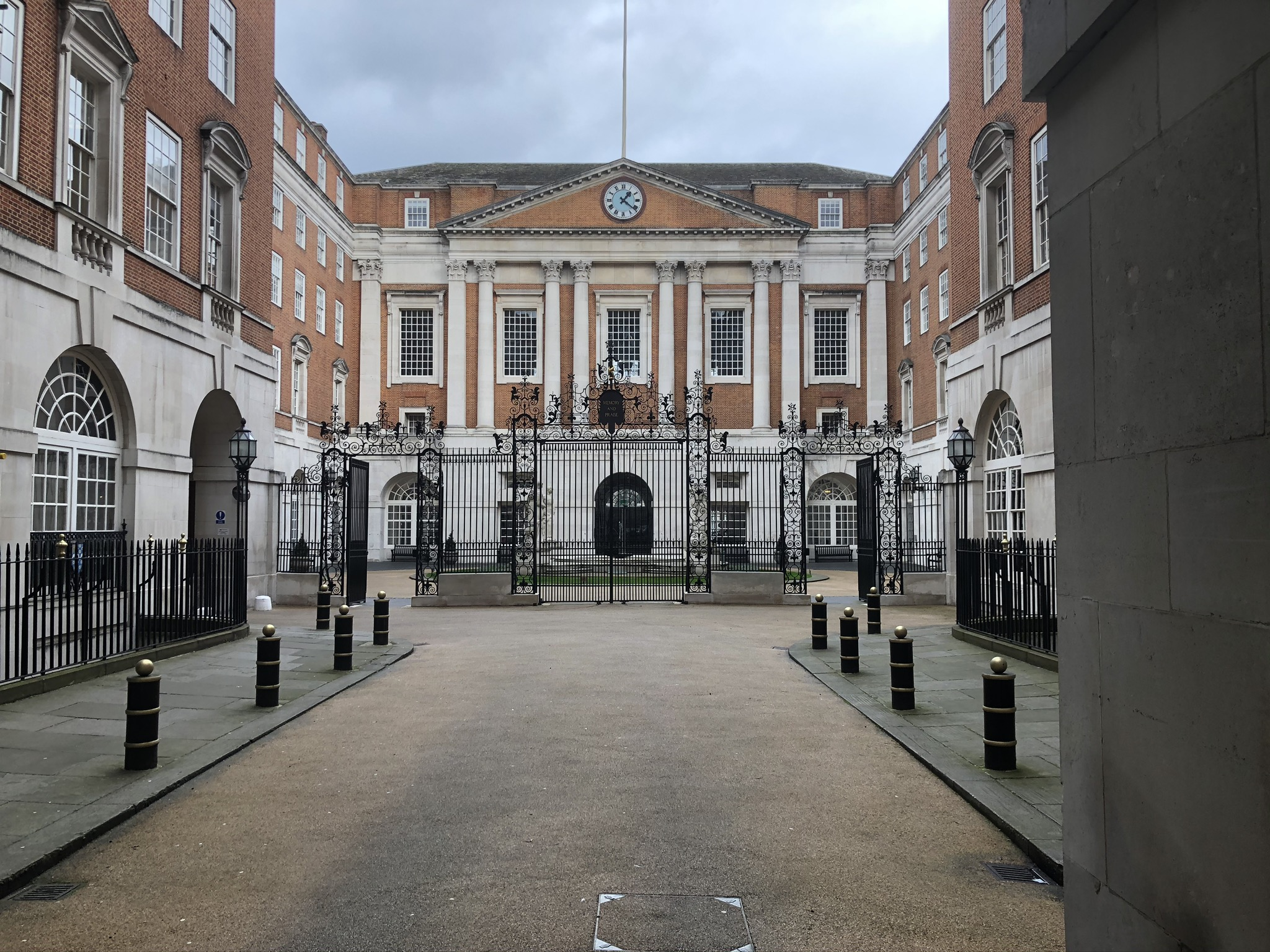 Memorial screen at BMA House, London commemorating the medical dead of WWI. Behind is the memorial to the medical dead of WWII.